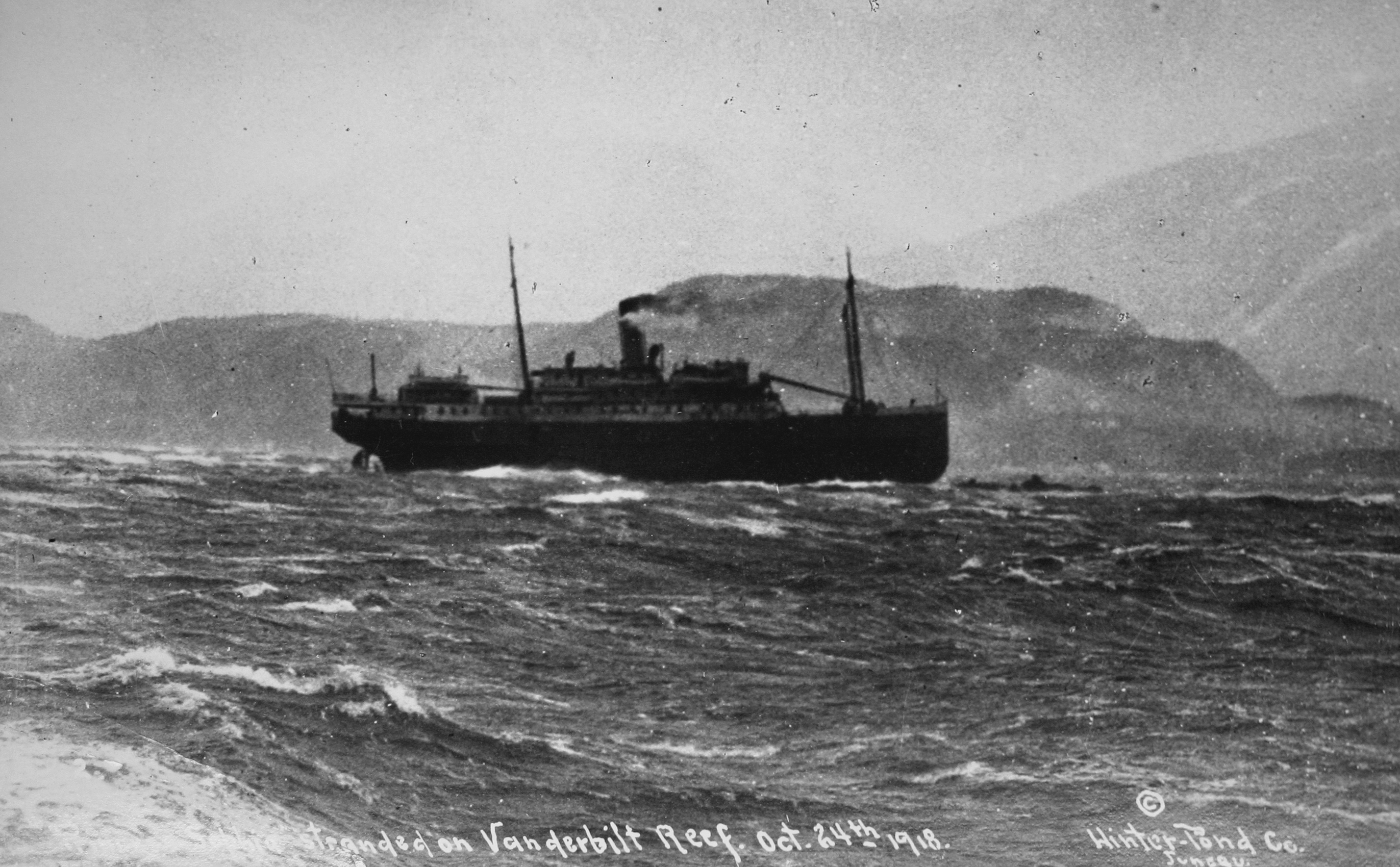 Princess Sophia steamship, stranded on Vanderbilt Reef, Lynn Canal, Alaska October 24, 1918.